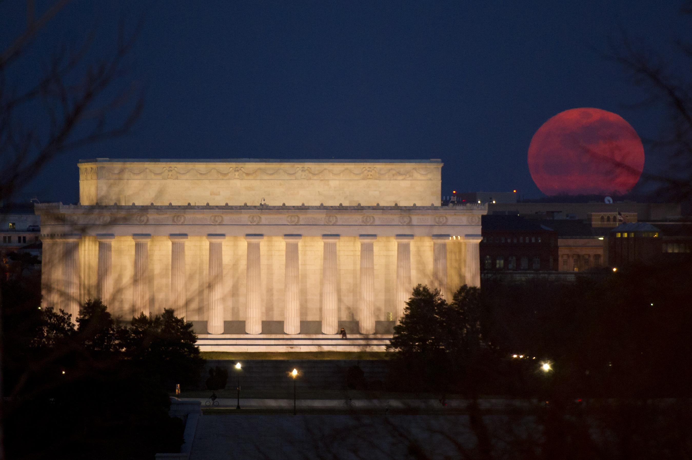 The full moon is seen as it rises near the Lincoln Memorial, Saturday, March 19, 2011, in Washington. The full moon tonight is called a "Super Perigee Moon" since it is at its closest to Earth in 2011. The last full moon so big and close to Earth occurred in March of 1993.